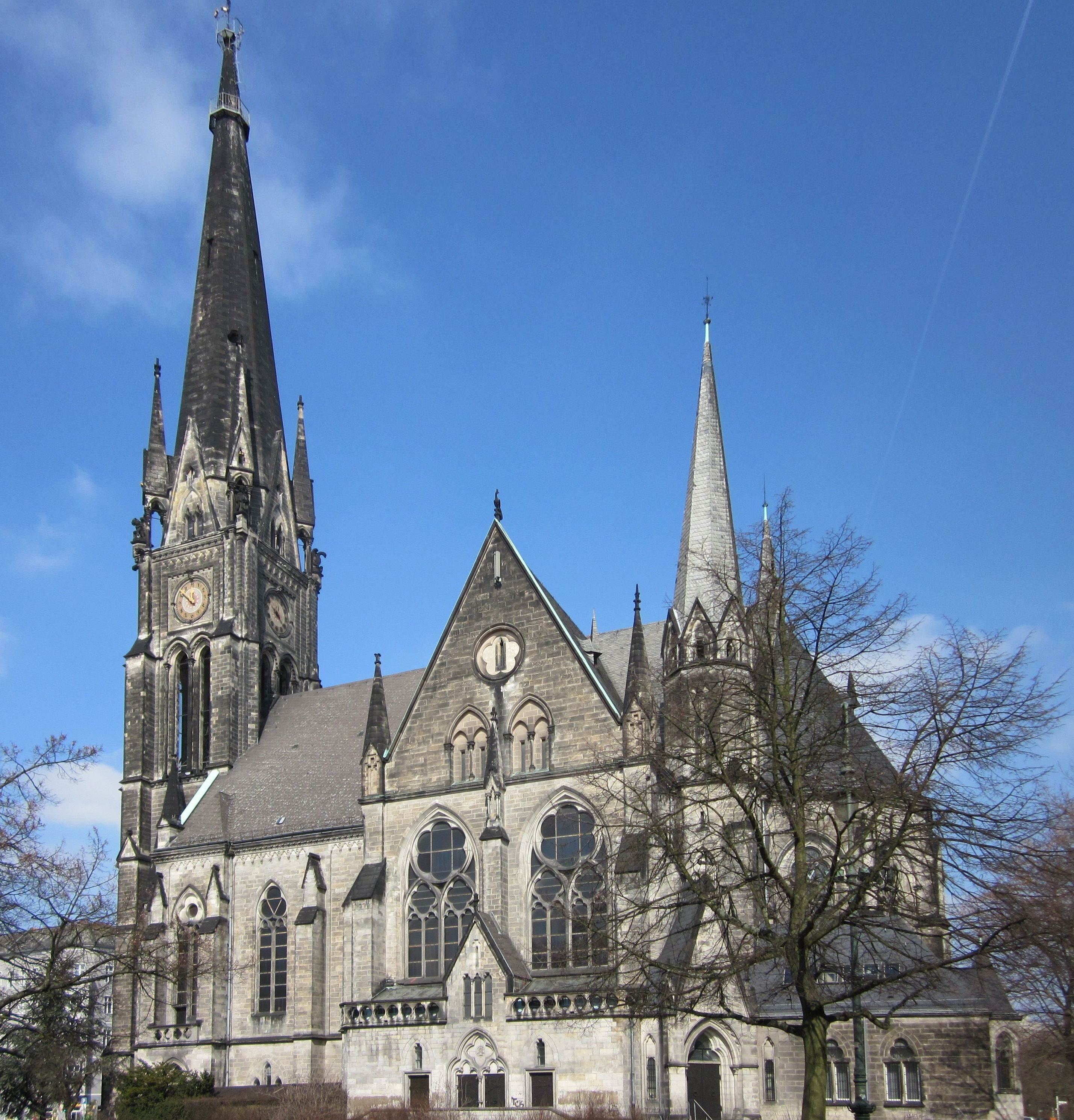 The Kirche am Südstern (Church at Southern Star Square) in Berlin-Berlin. It was built from 1893 to 1897 to a design by Ernst August Rossteuscher for the protestant members of the Berlin garrison. The church has been designated as a historic landmark.